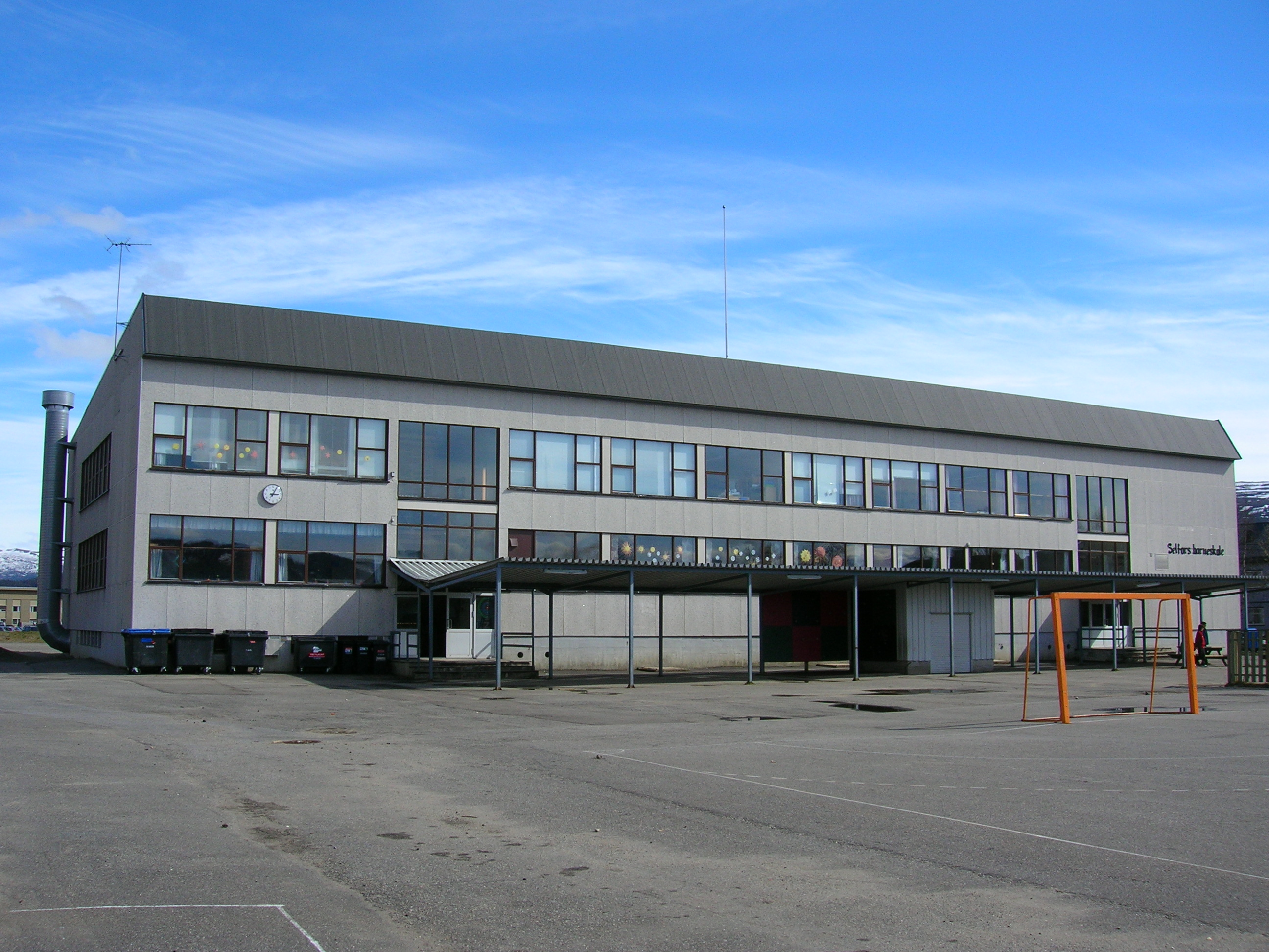 Selfors primary school (from the first to the fifth grade). Selfors, Rana municipality, county of Nordland, Norway, Photo 14 May, 2007 with a Nikon Coolpix 5600 5,1 Megapixel camera.